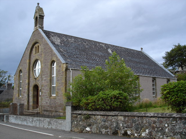 Poolewe Free Church of Scotland. Overlooks the River Ewe